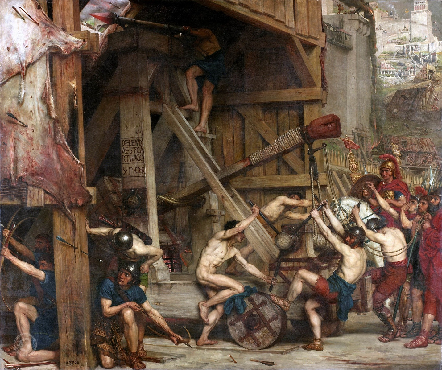 In 1868 Poynter produced another of his most celebrated Roman spectaculars, The Catapult. This shows Roman soldiers manning a siege engine for an attack on the walls of Carthage, during the siege which ended in the destruction of Carthage in 146 BC. The famous command of Cato the Elder, "Delenda est Carthago" (quoted in Pultarch's "Life of Cato") is carved in the wood of the huge catapult. The picture was a great success.